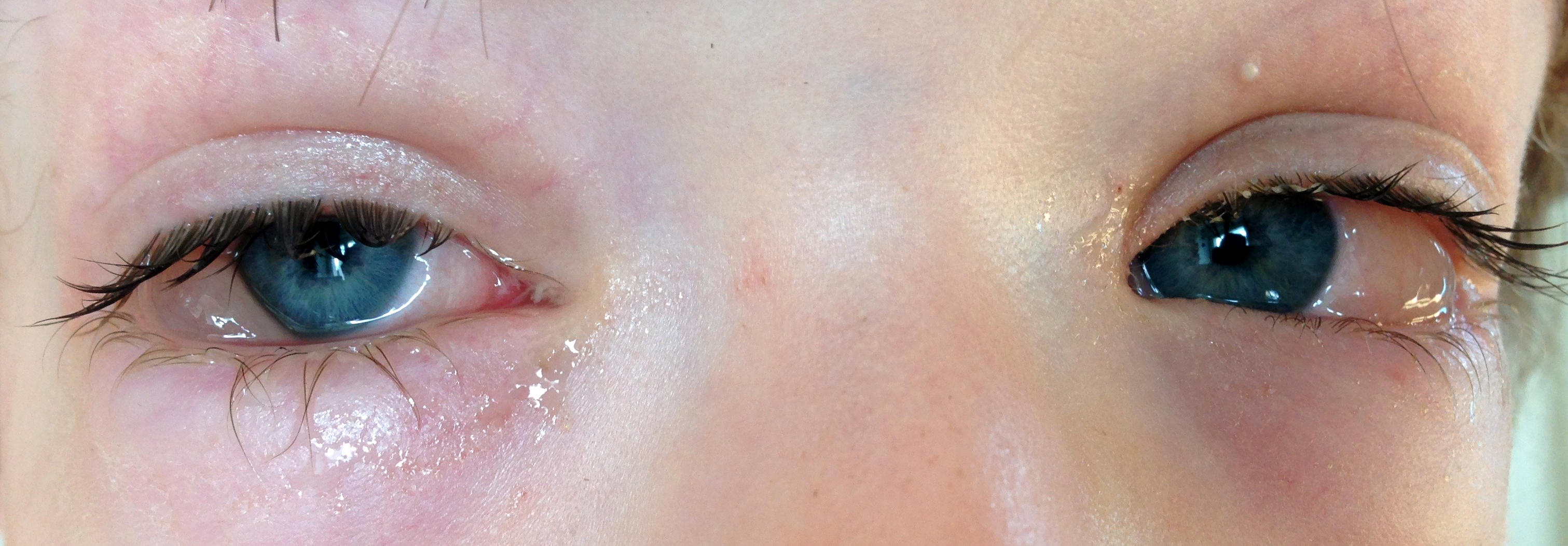 This child developed a chemosis, an edema of the conjonctiva, due to an allergy to pollens. A chemosis can also appear in viral infections.